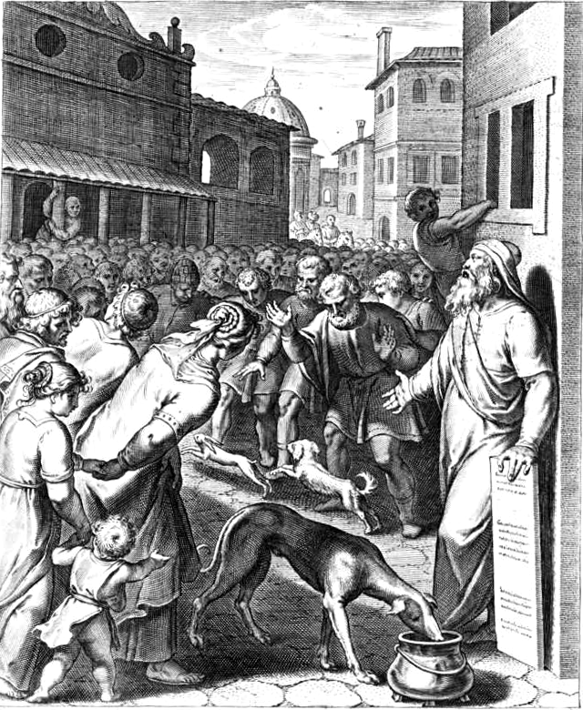 Lycurgus and the Two Dogs